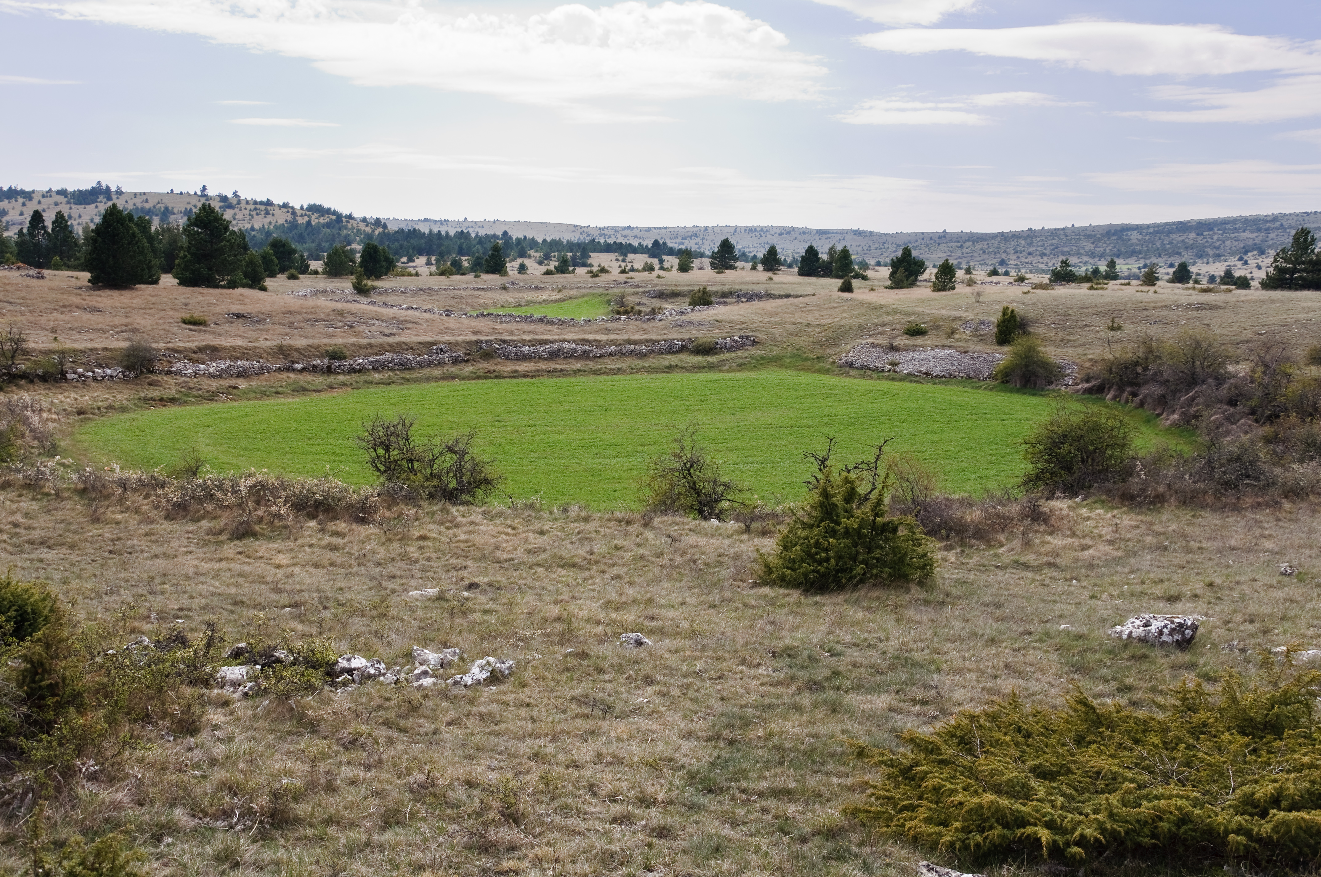 Sinkholes surrounded by dry stone walls in the Devez des Cheyrouses, Causse de Sauveterre, Lozère, France.